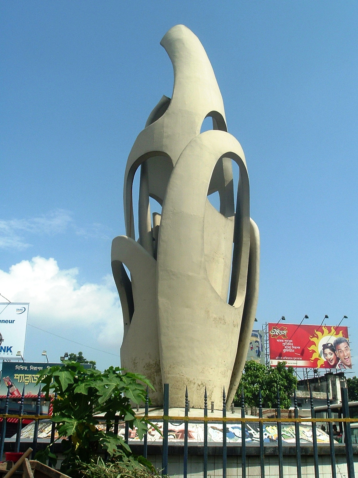 BangaBandhu Square Monument at Gulistan Crossing, in Dhaka, for the memory of Sheikh Mujibur Rahman.